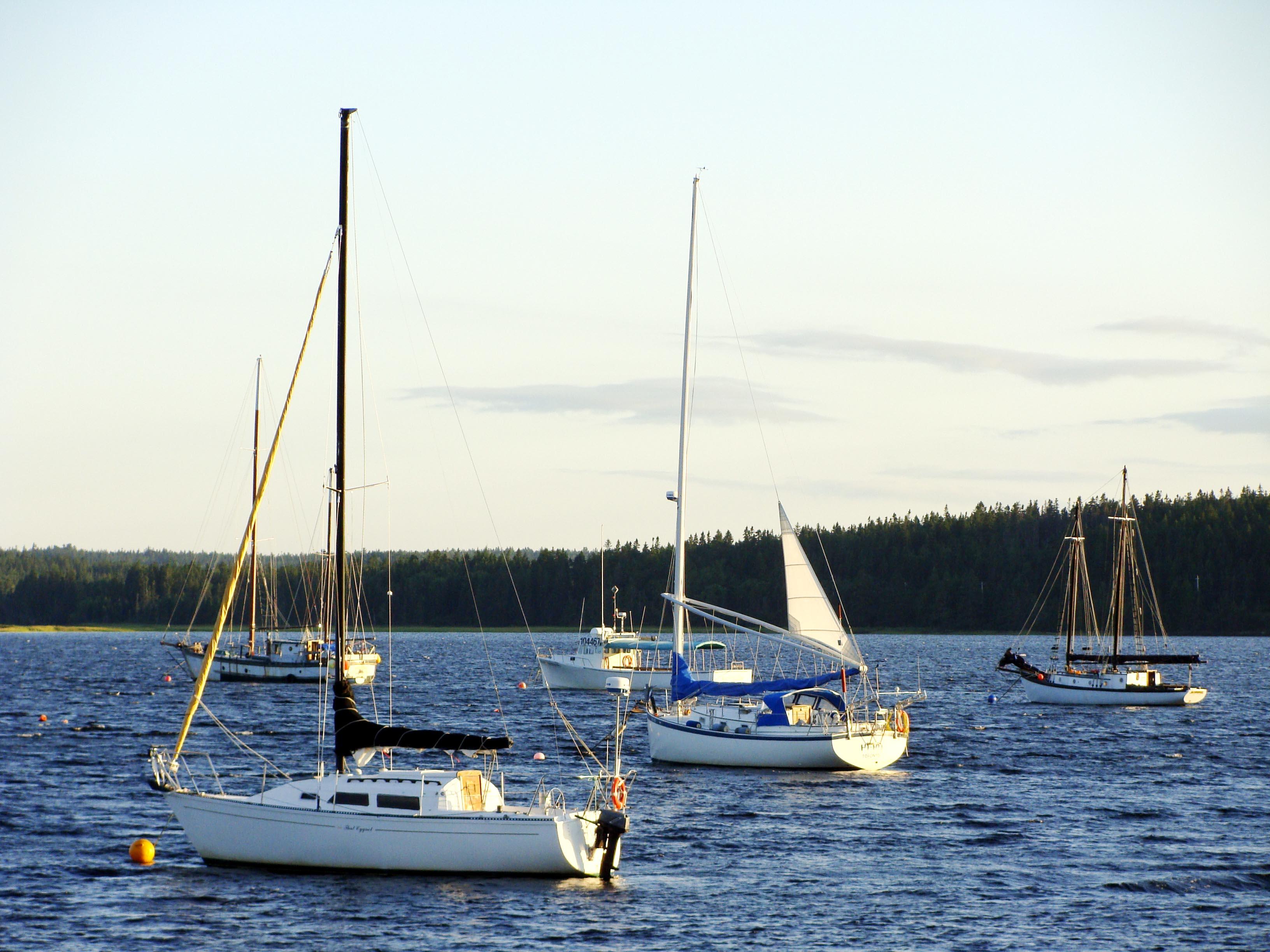 Boats in Creaser's Cove